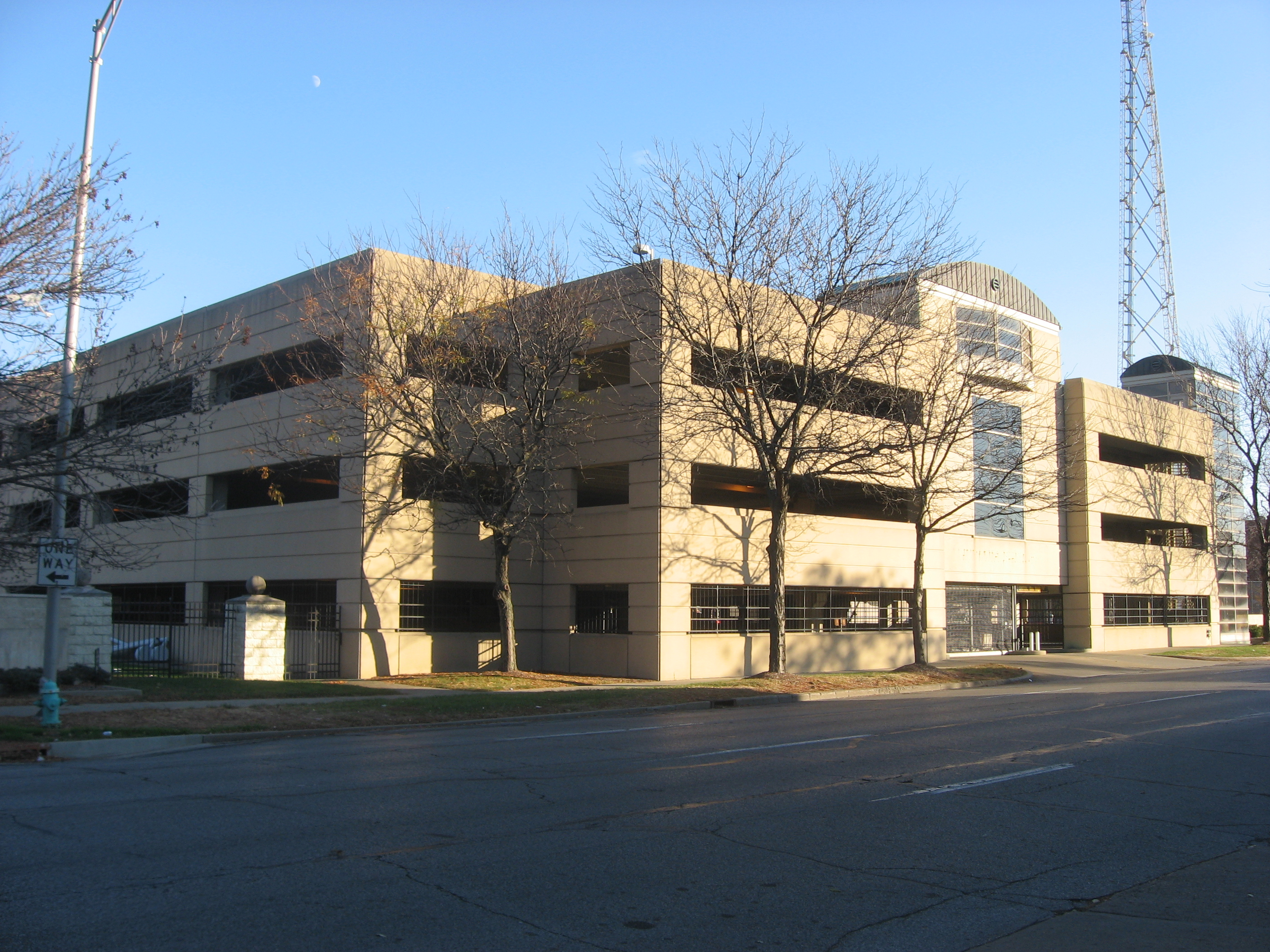 Building on the site of The Seville, formerly located at 1701 N. Pennsylvania Street in Indianapolis, Indiana, United States. It is listed on the National Register of Historic Places, despite having been destroyed.